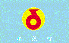 Flag of Yokohama Aomori